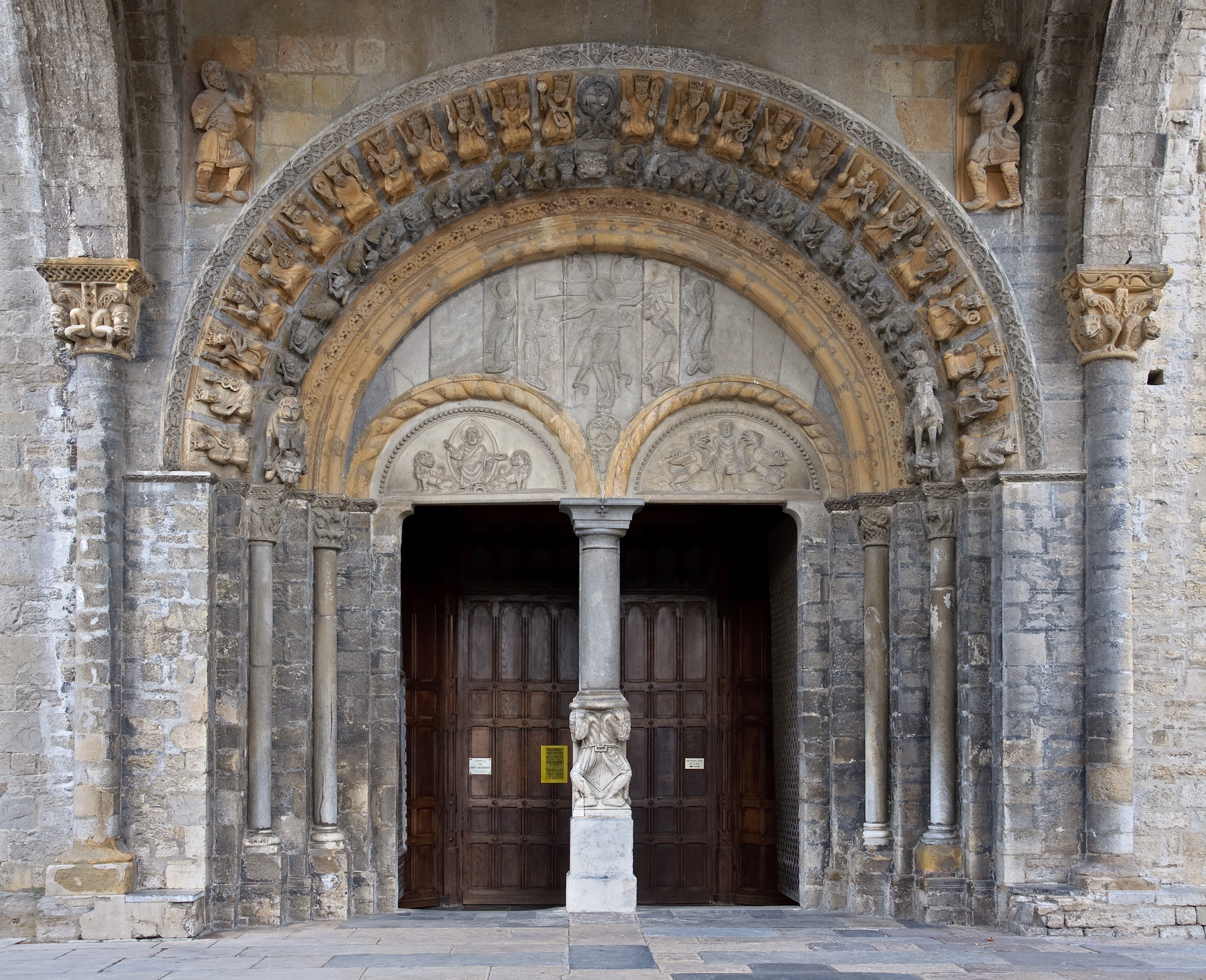 Former Oloron Cathedral (Cathédrale Sainte-Marie d'Oloron), in Oloron-Sainte-Marie, Pyrénées-Atlantiques, France : 12th-century portal of the main facade, under the west porch. .